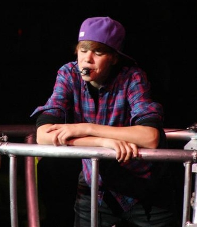 Justin Bieber performing at the Conseco Fieldhouse.